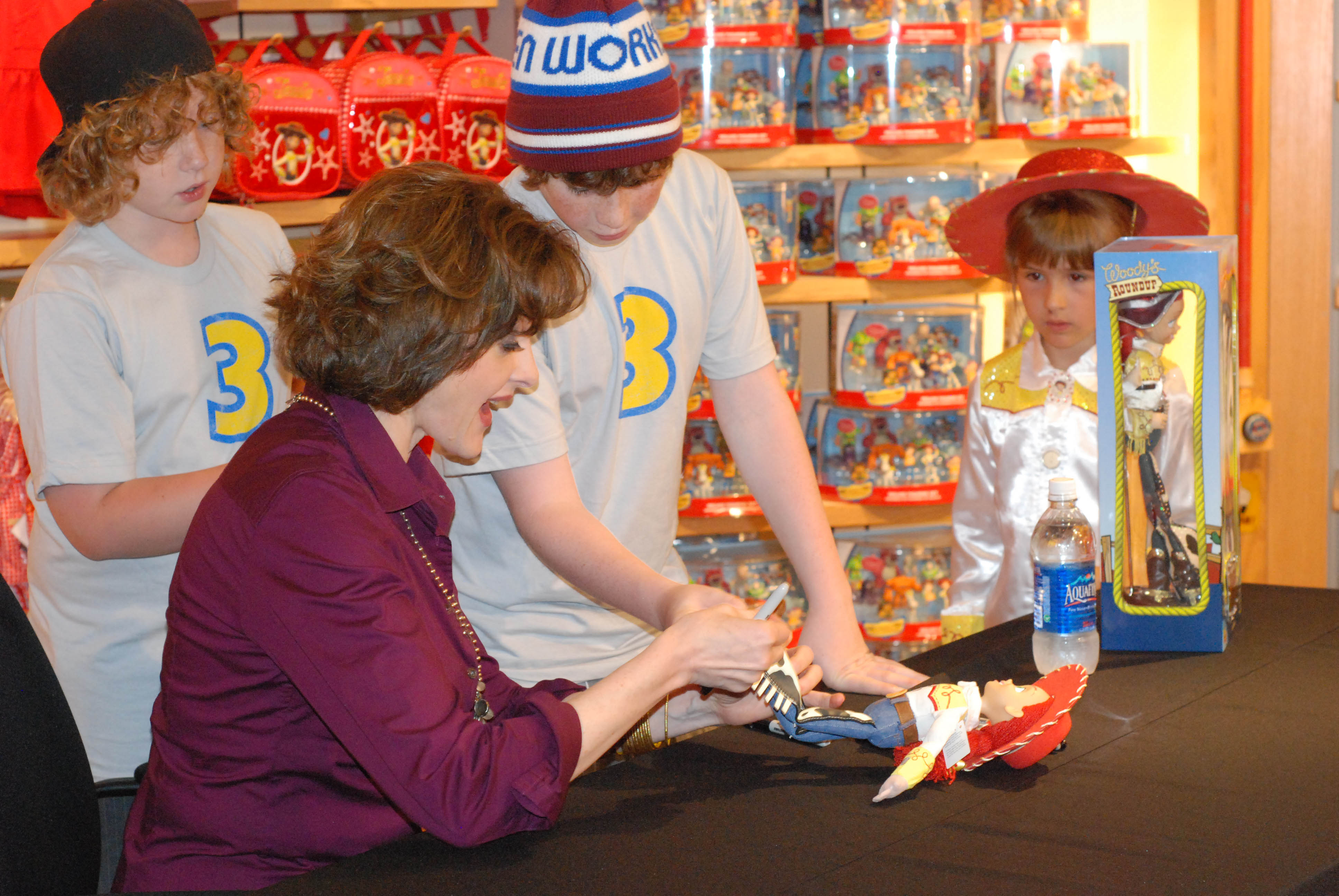 Actress Joan Cusack pictured, signing Toy Story 3 merchandise